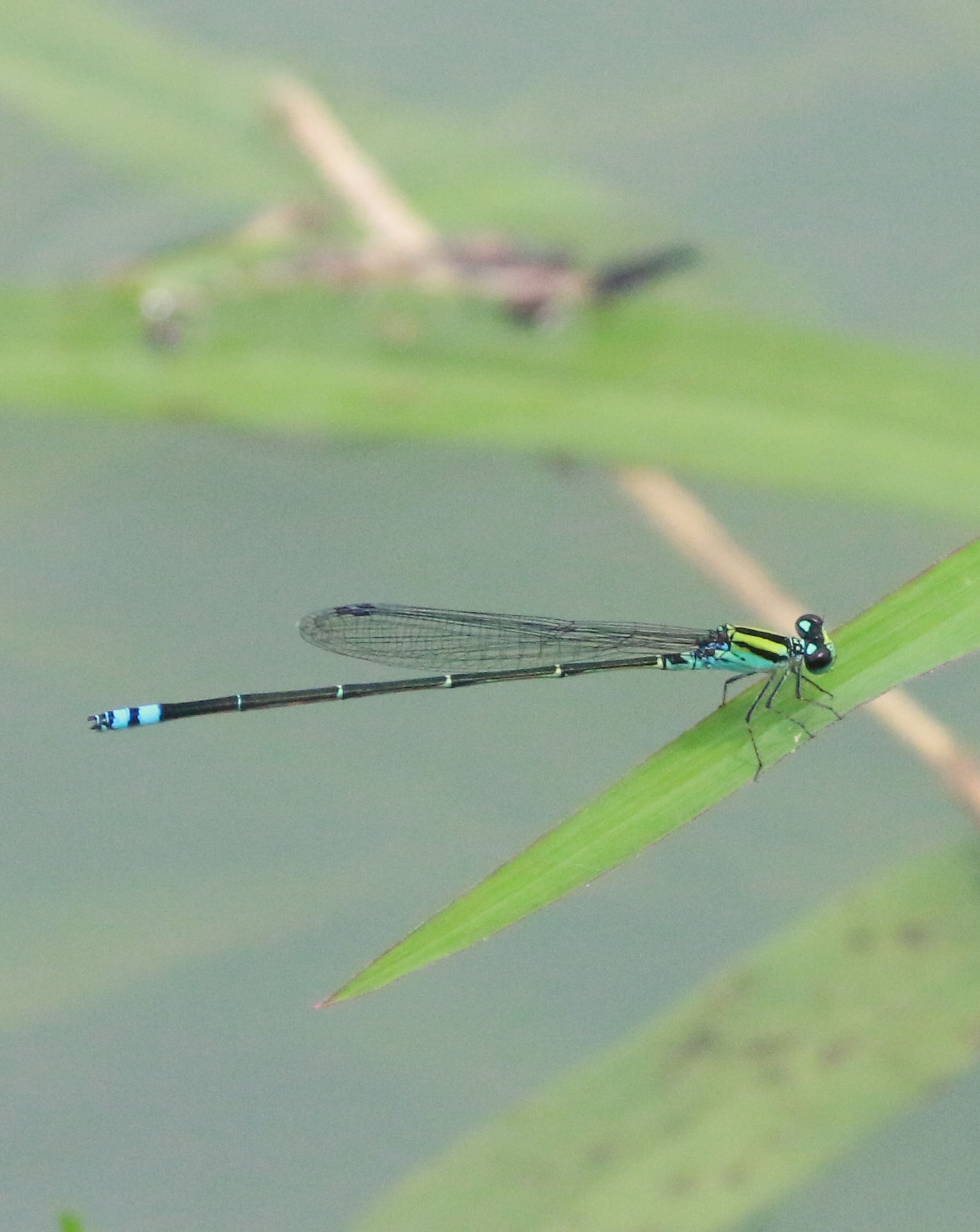 Pseudagrion indicum, yellow-striped blue dart